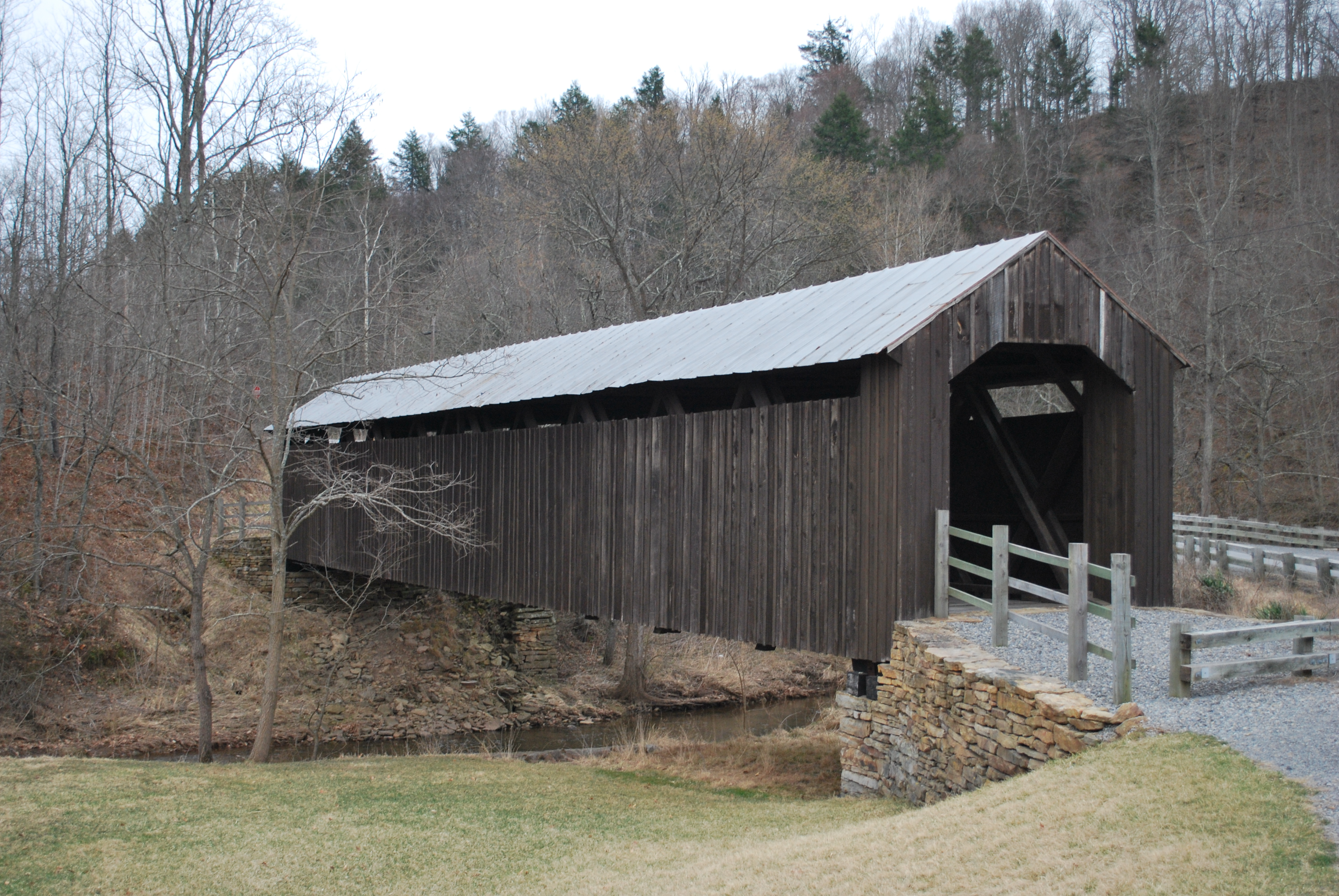 Photo of Locust Creek Covered Bridge in Pocahontas County, West Virginia.